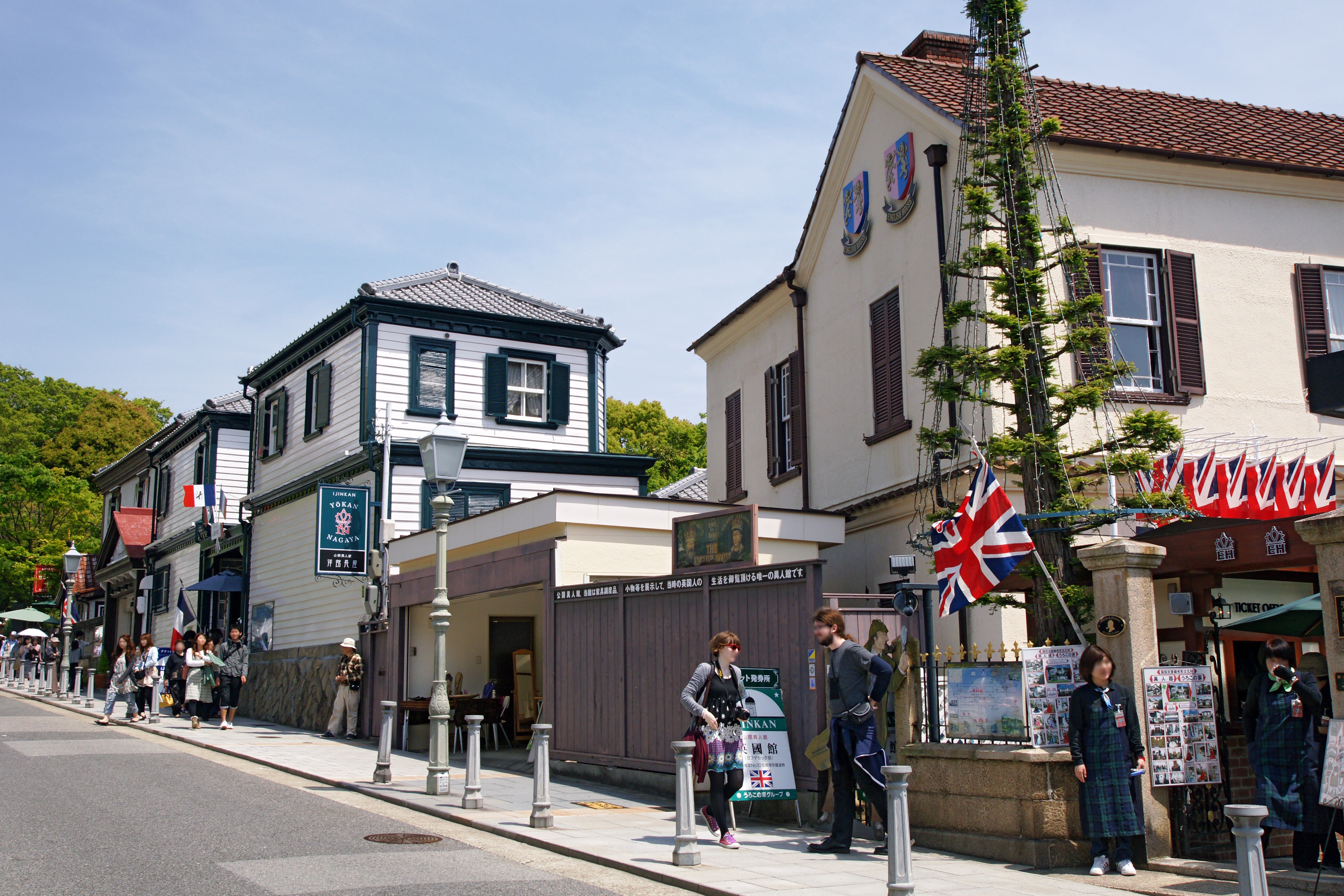 Kitano Street in Kobe, Hyogo prefecture, Japan